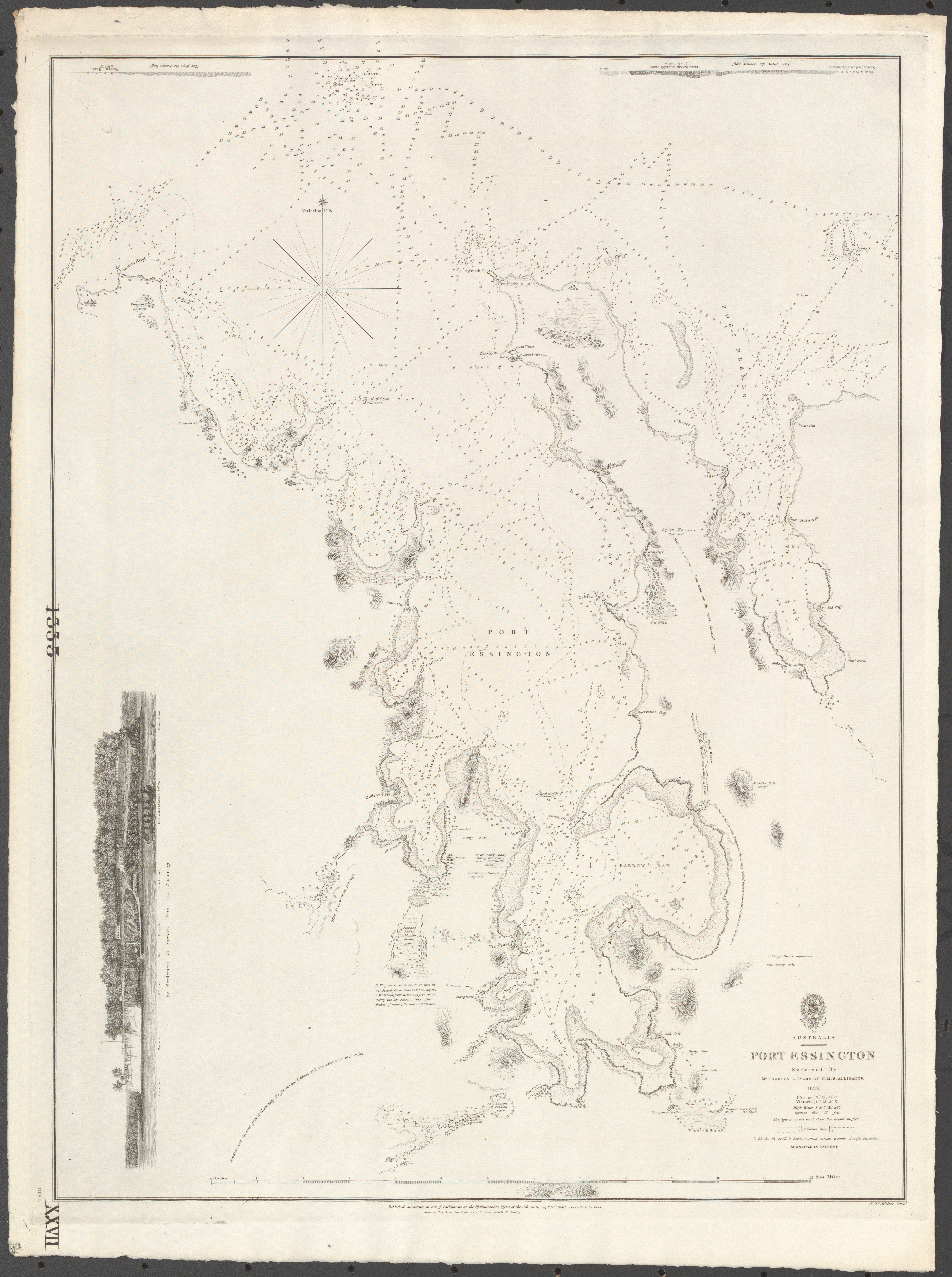 Nautical chart of Australia, Port Essington. Surveyed by Mr. Charles J. Tyers of H.M.S. Alligator, 1839. Not current - not to be used for navigation!